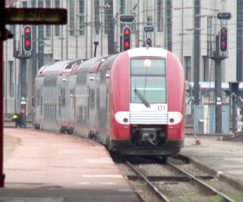 TER 2N NG train (this one a Luxembourg example) arriving from Nancy at Metz station